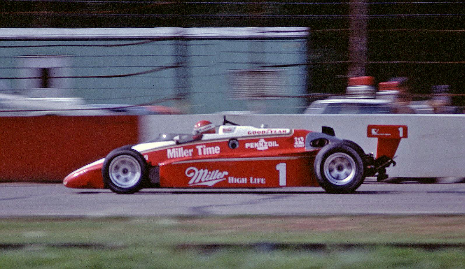 Al Unser, Sr. #1 CART Champcar in 1984.